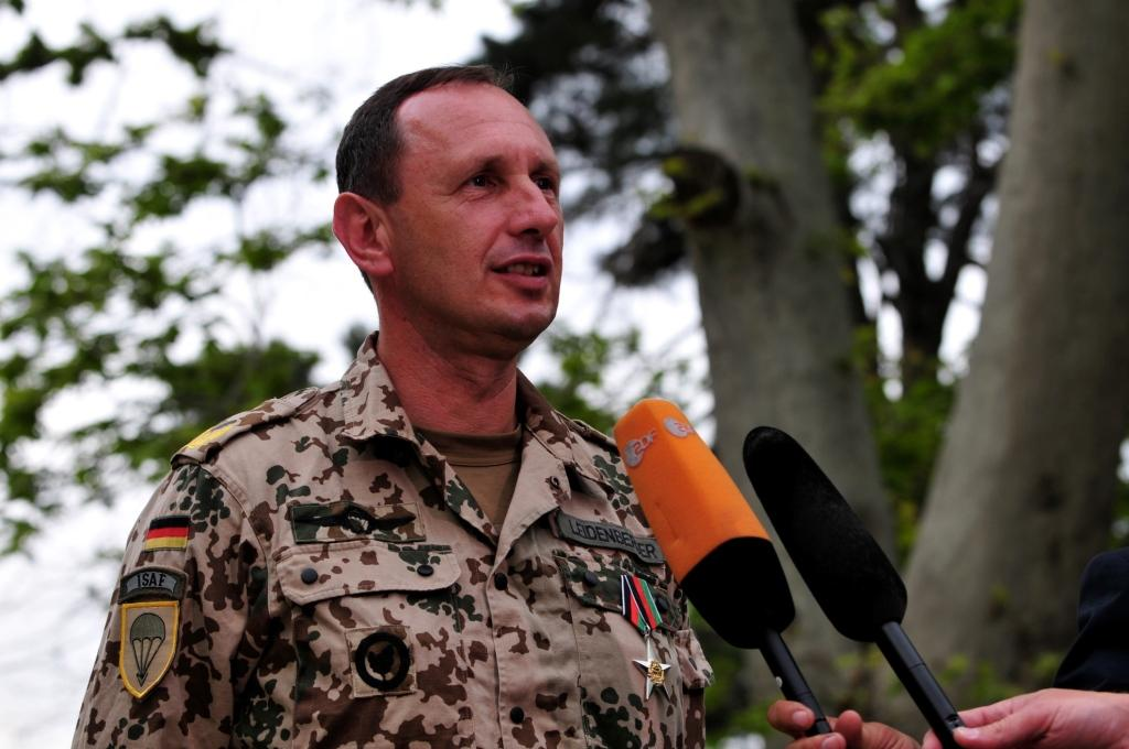 Brigadier General Frank Leidenberger